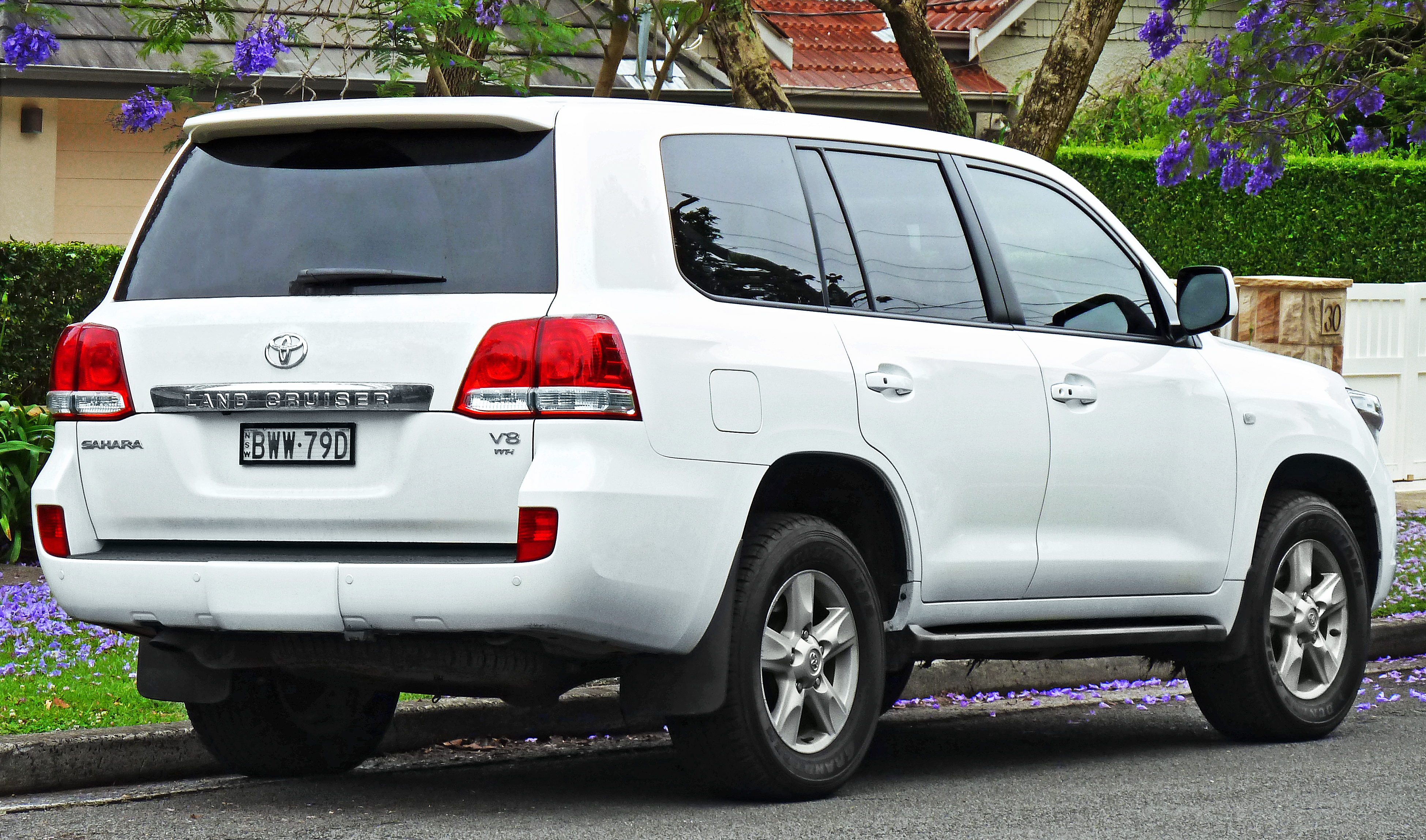 2011 Toyota Land Cruiser (UZJ200R) Sahara wagon. Photographed in Lindfield, New South Wales, Australia.